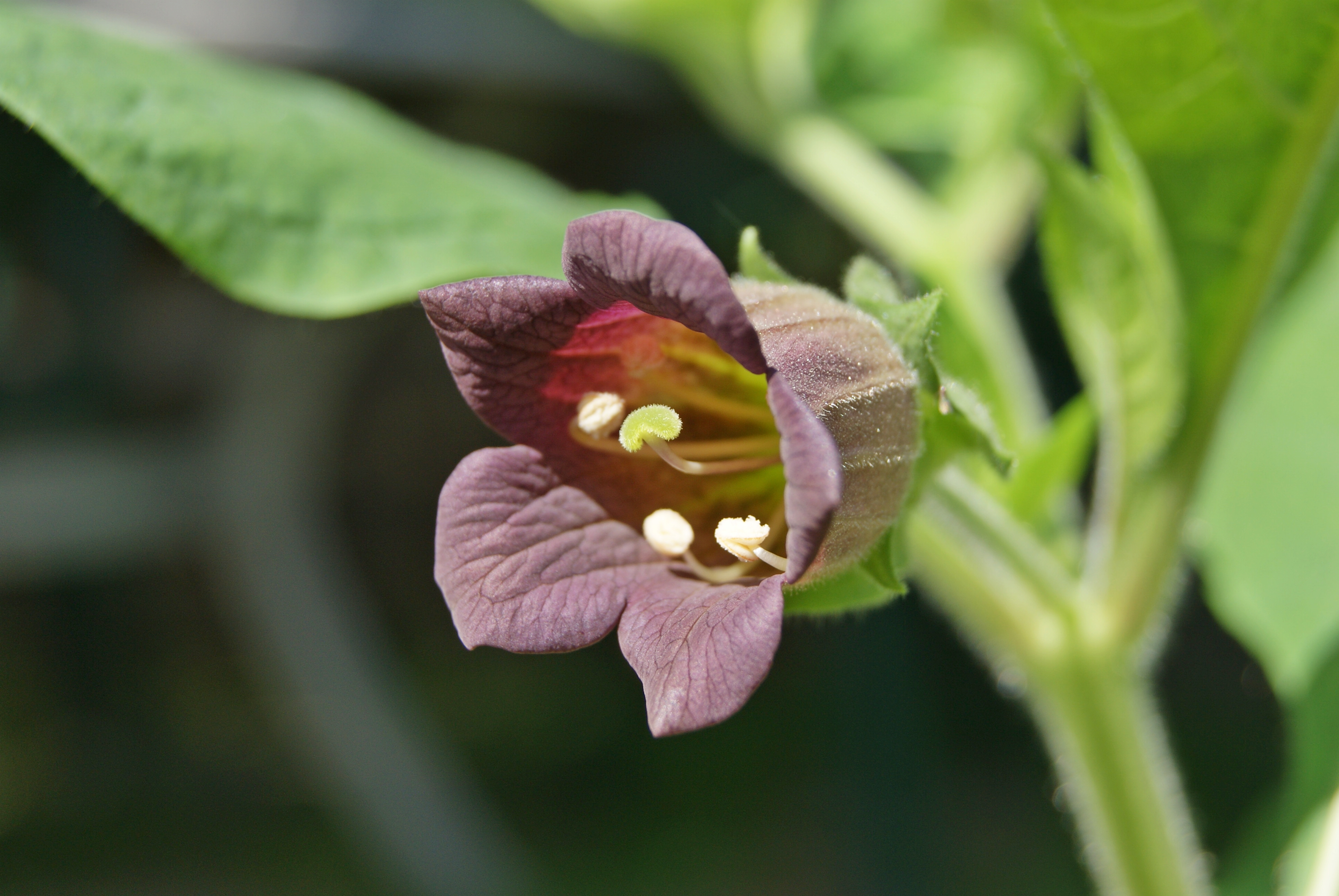 Atropa belladonna